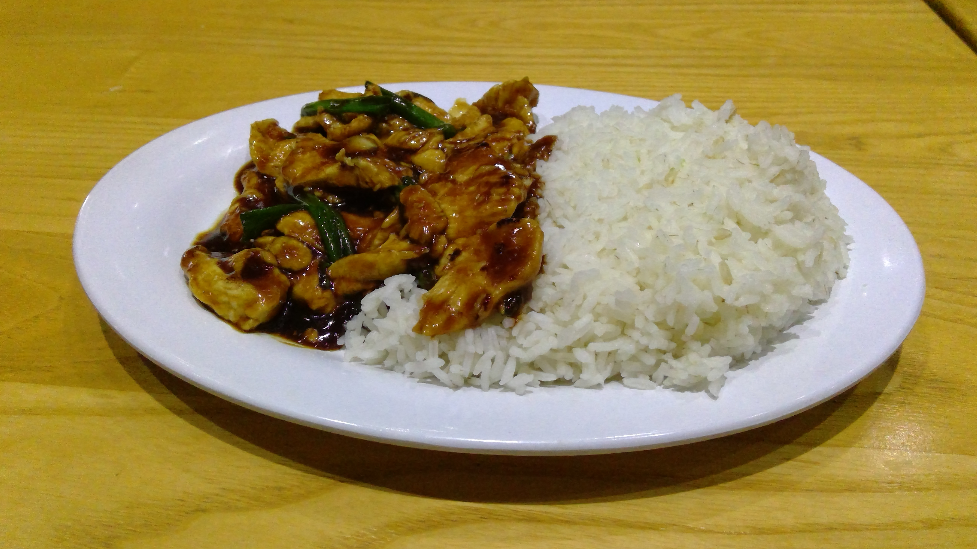 Dinner, Pei Wei fast casual restaurant, Gainesville, Virginia